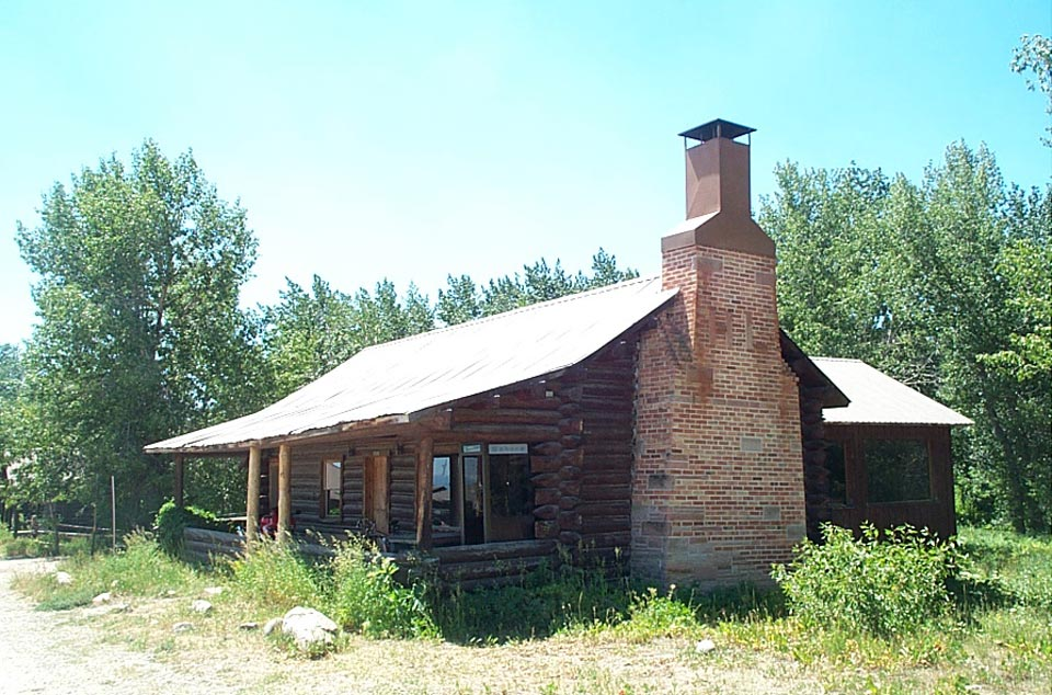 Highlands Ranch dining room and lodge, Grand Teton National Park, Wyoming, USA